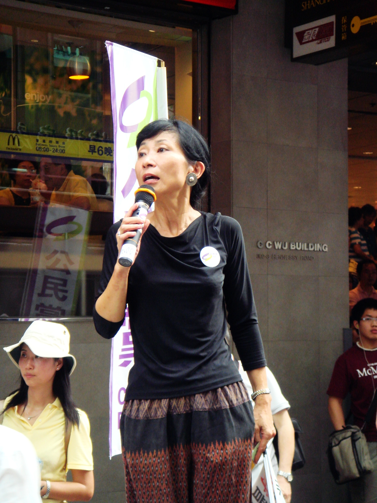 Cheung Yin Tung